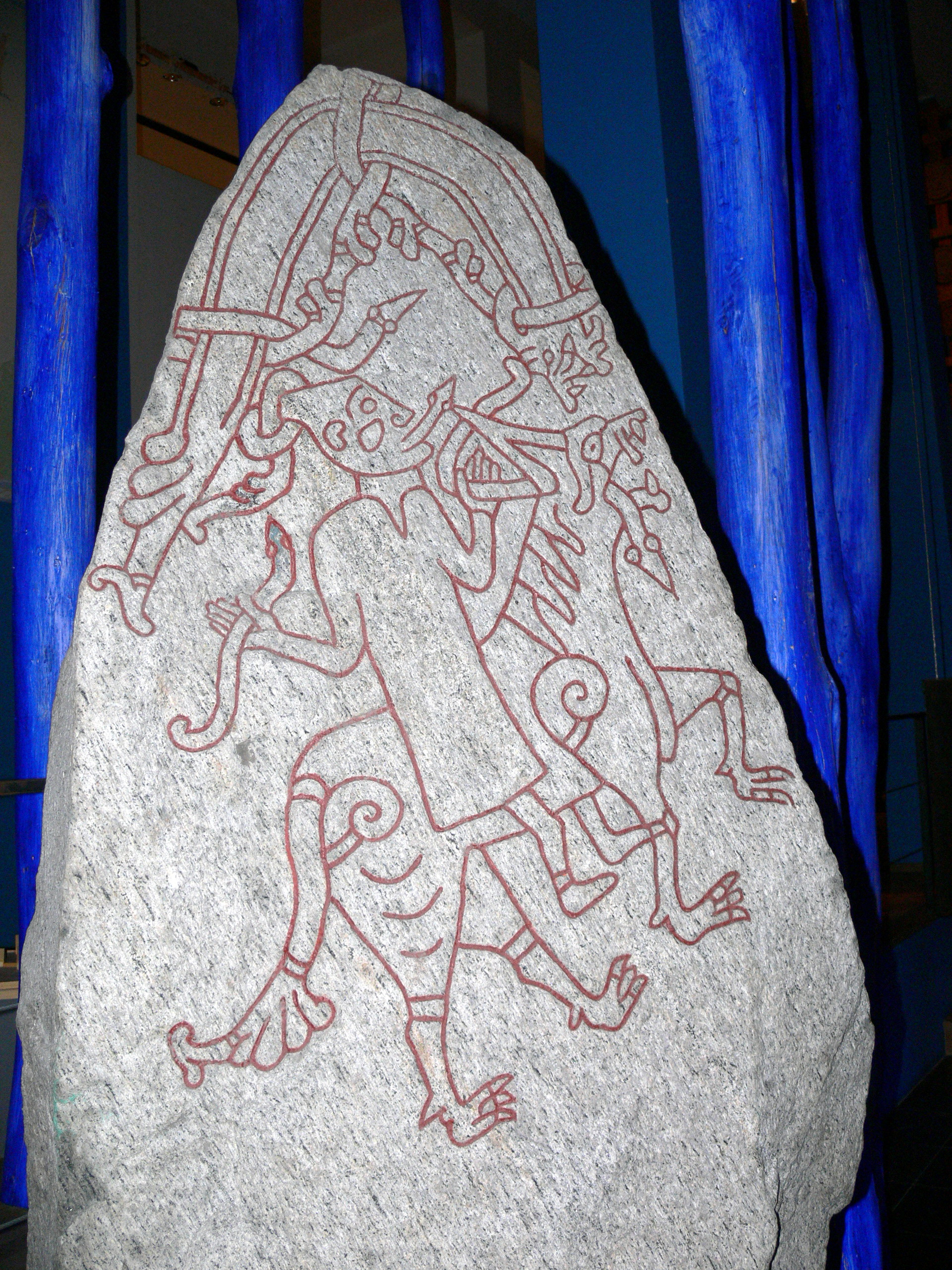 Open air museum Kulturen in Lund ( Sweden ). Picture stone with giantess Holdrikka.